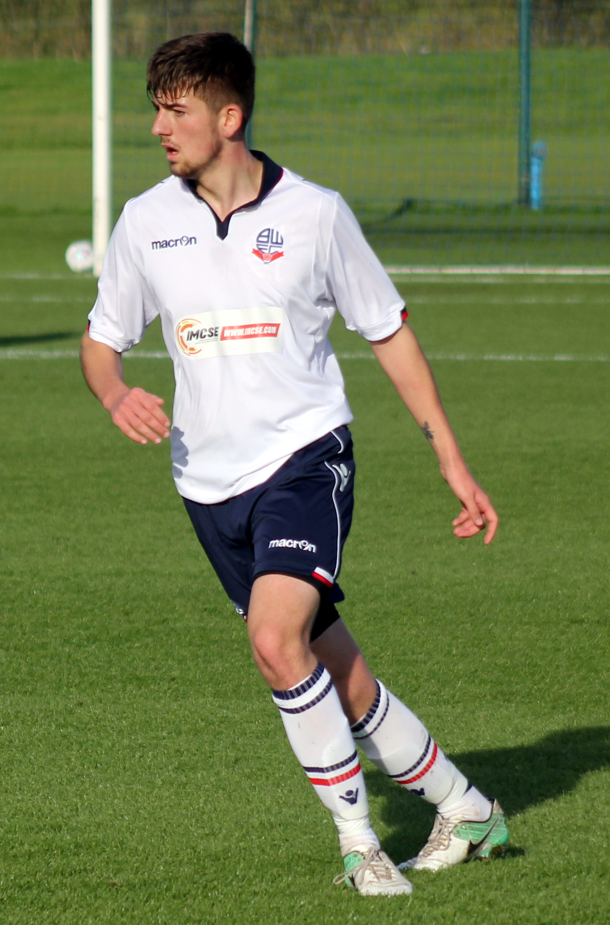 Bolton Wanderers U18s 0-0 Sheffield Wednesday U18s Premier League U18 Professional Development League North Saturday 11 November Eddie Davies Academy